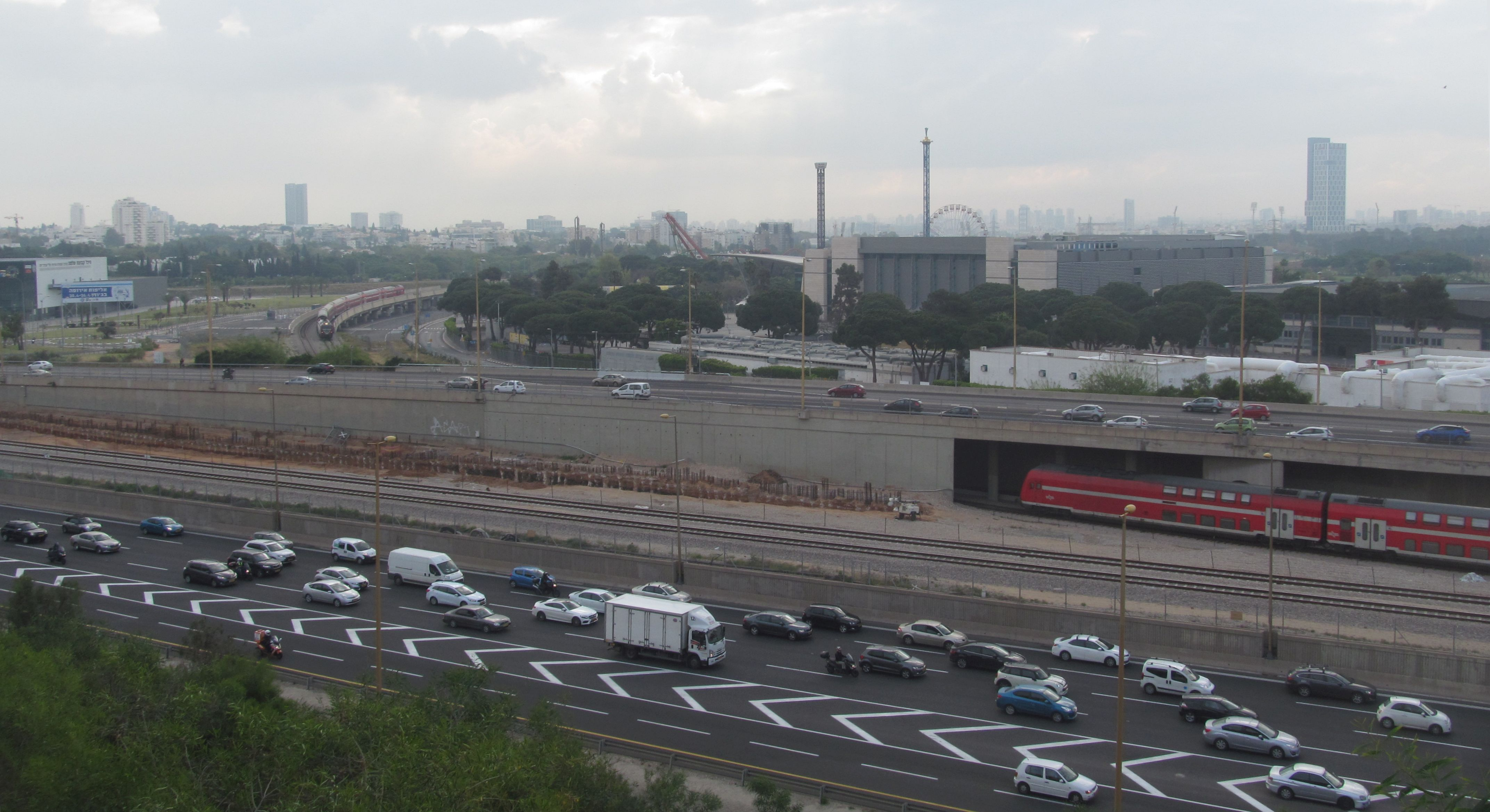 Yarkon Railway branching off the Coastal railway line